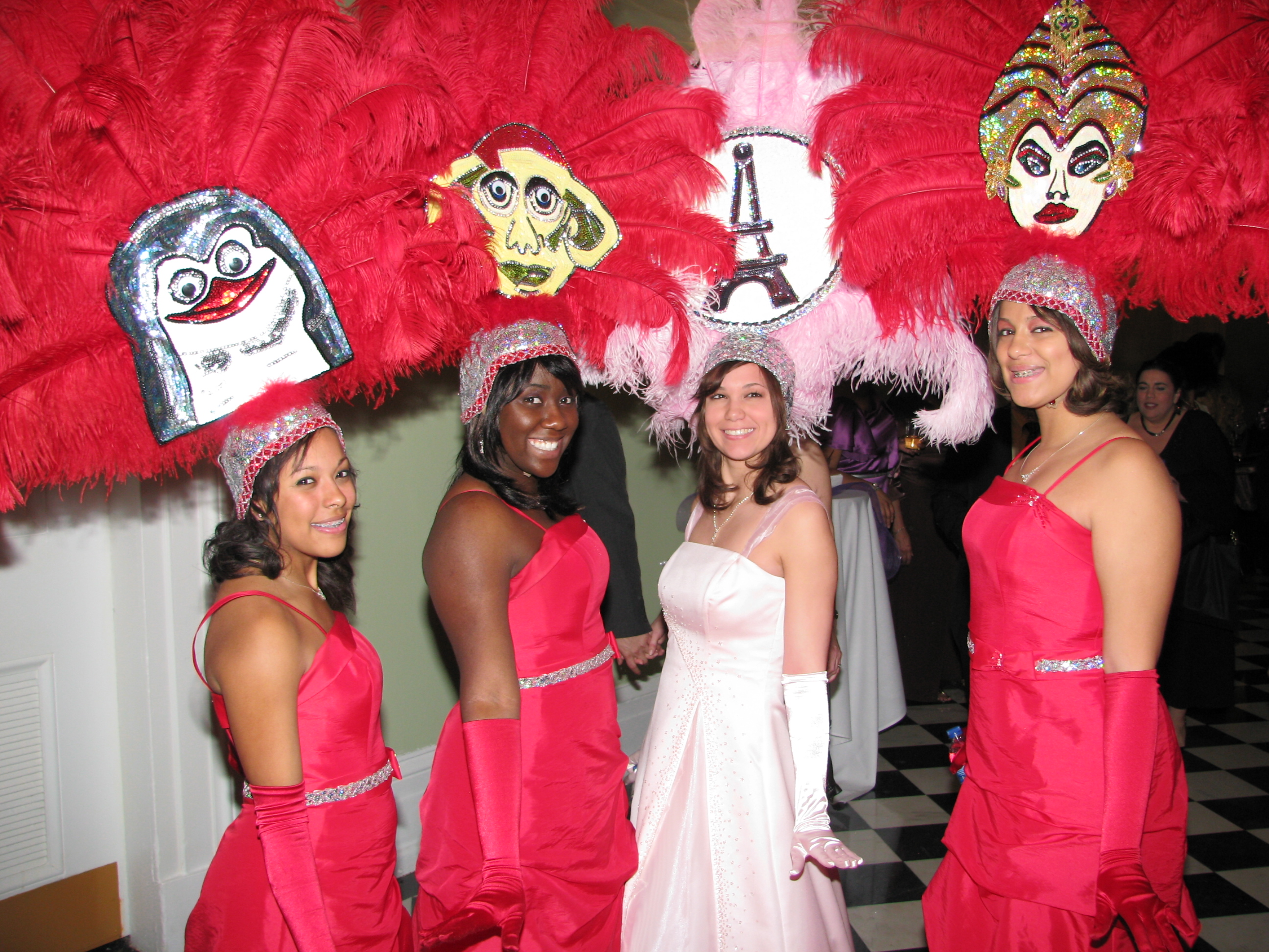 New Orleans Mardi Gras. Mayor's Ball at Gallier Hall. 4 young women with costume headdresses.